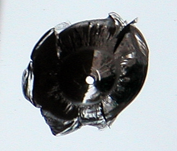 Picture of a Herzian cone fracture in glass, from the Downtown Cafe in Merced, CA